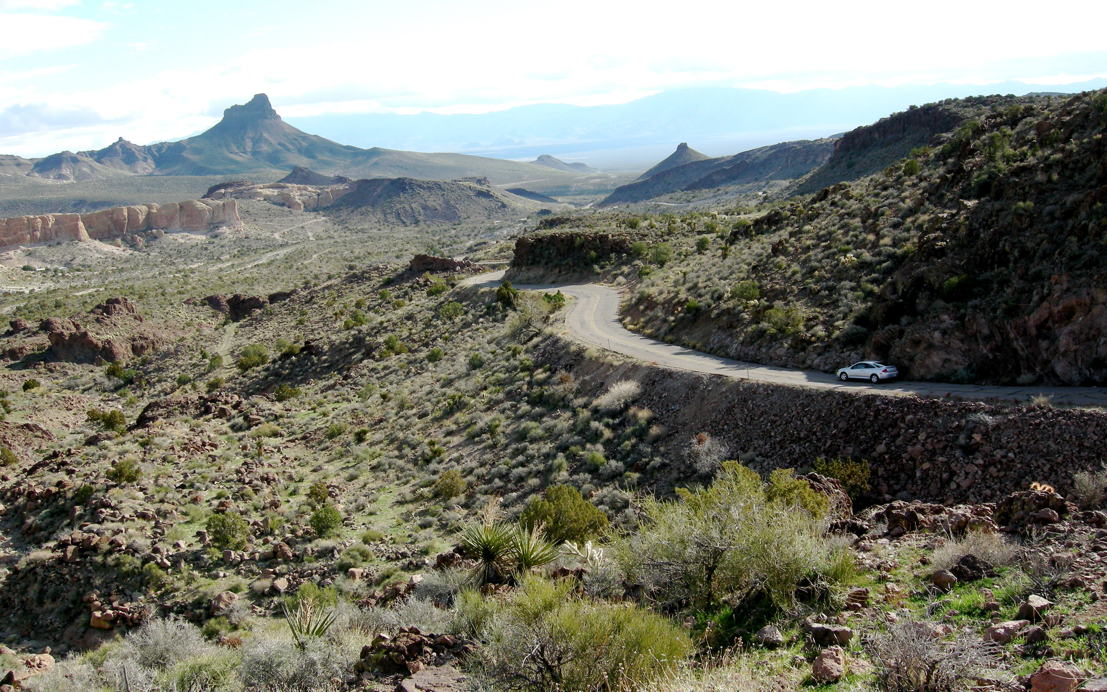 Old Route 66, AZ.